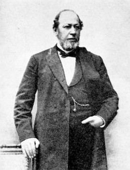 Johan Edward Francke (1824-1891, wholesaler, timber merchant.